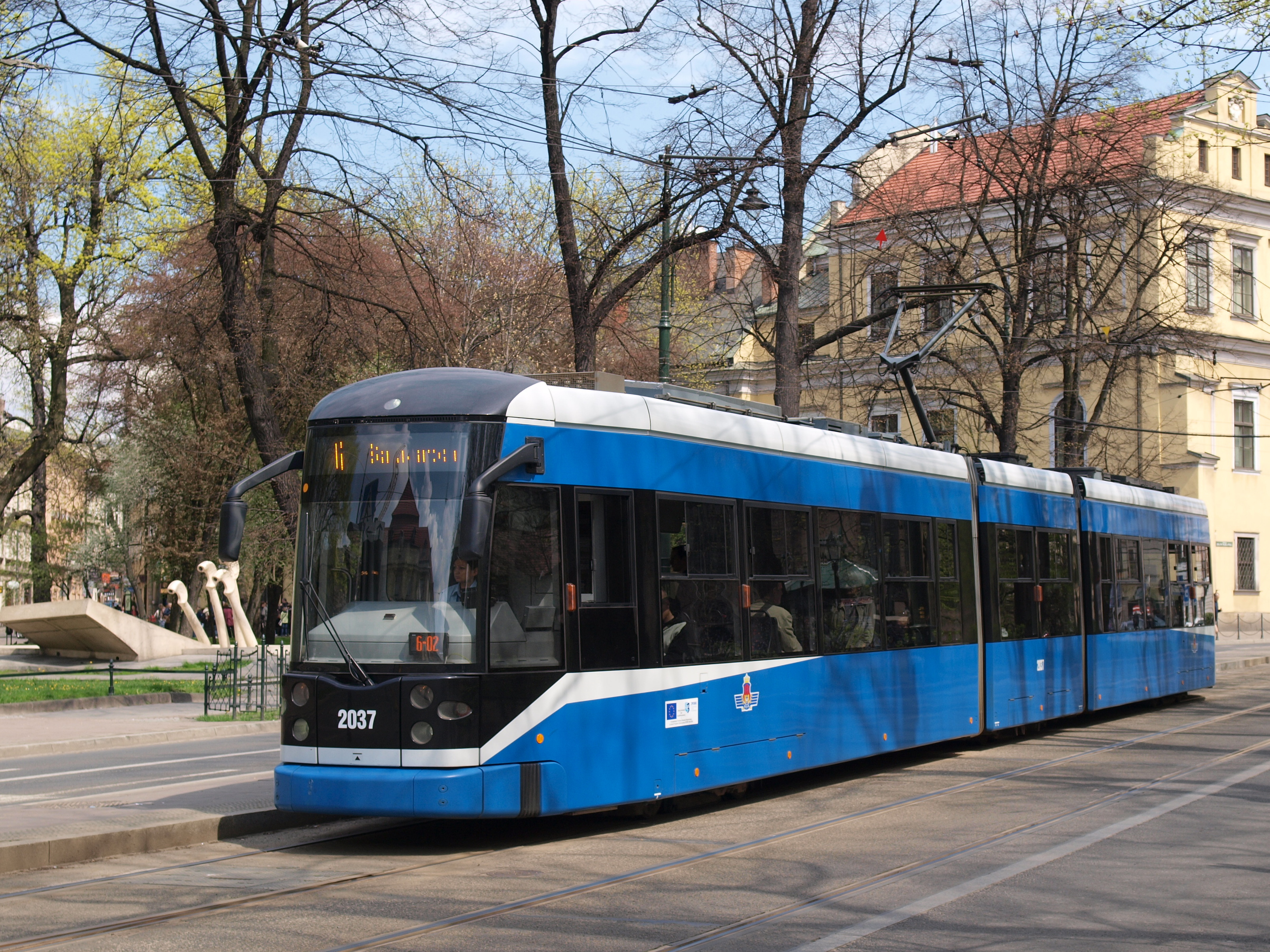 Bombardier NGT6-2 #2037 in Krakow on Filharmonia stop.